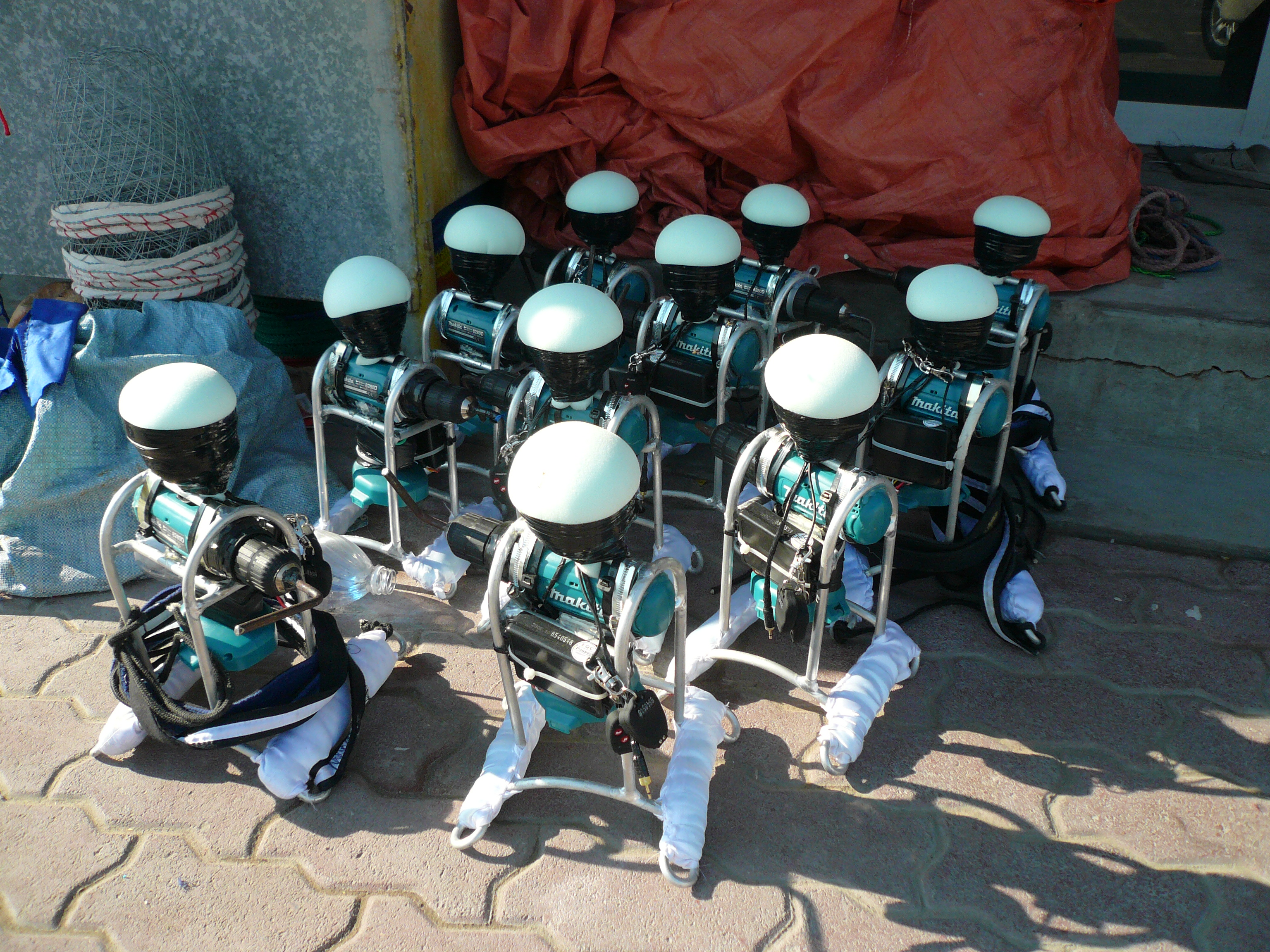 Take me to your leader!